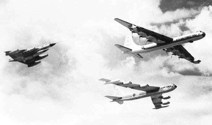 B-36, B-52 and B-58 from Carswell AFB, Texas in formation flight as B-36 is retired, 1958 Source: United States Air Force Historical Research Agency, Maxwell AFB, Alabama